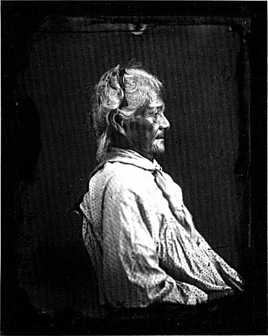 Photograph of an Old Hawaiian woman by Danish amateur photographer Christian Hedemann, Hana 1883.